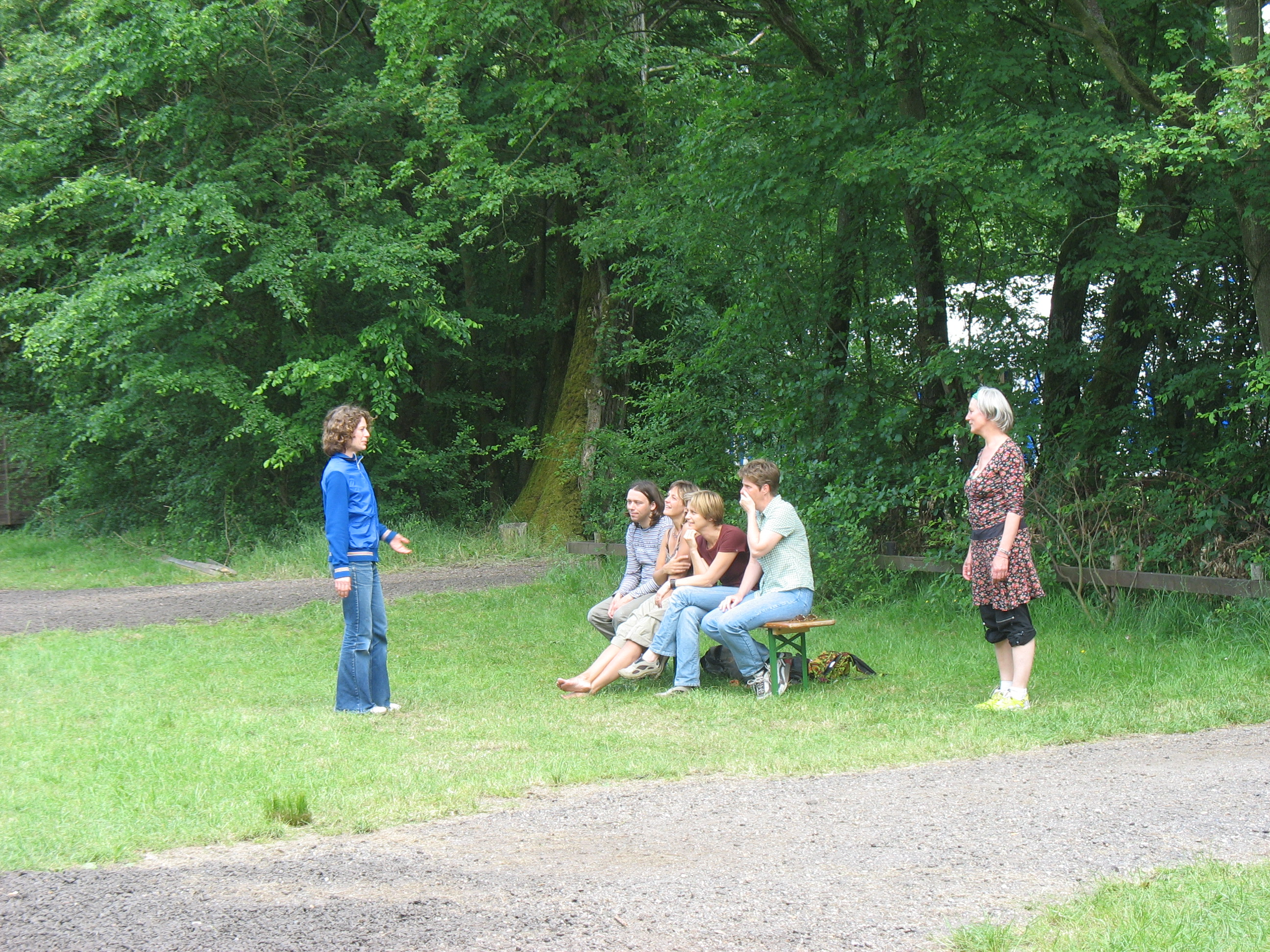 actinglessons in Randmeer